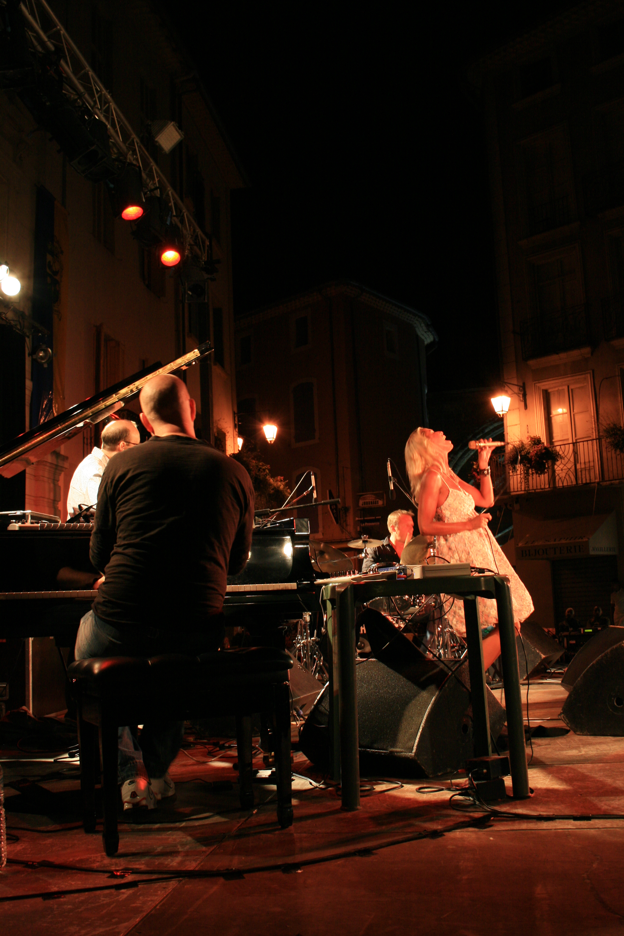 Viktoria Tolstoy singing at Orange's jazz festival in France.